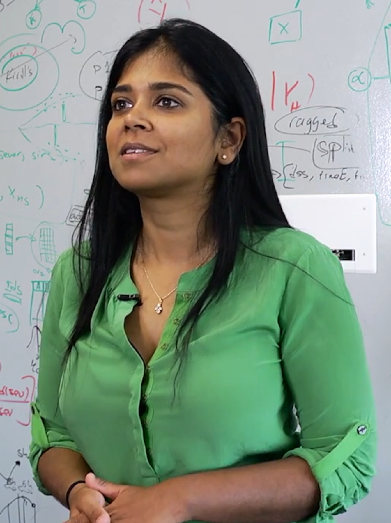 Some chronic conditions, such as the autoimmune disease scleroderma, are especially difficult to treat because patients exhibit highly variable symptoms, complications and treatment responses. The process of finding an effective treatment for an individual can be frustrating for doctors, and painful and expensive for patients. With support from the National Science Foundation, computer scientist and professor Suchi Saria, with Fredrick Wigley and an interdisciplinary team of experts at Johns Hopkins University, is leading a groundbreaking effort using Big Data to ease some of that pain for scleroderma patients.